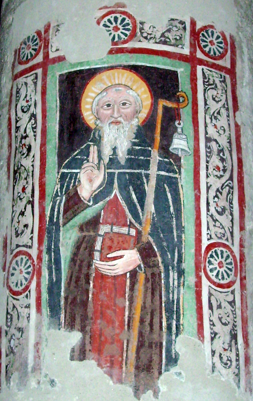 Fresco of Saint Columbanus on a column at Brugnato Cathedral in Italy